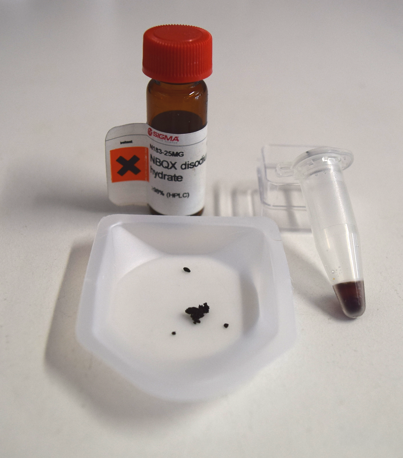 Shown is a flask of NBQX Sodium salt, a sample of the substance and a 10 µmol solution in water